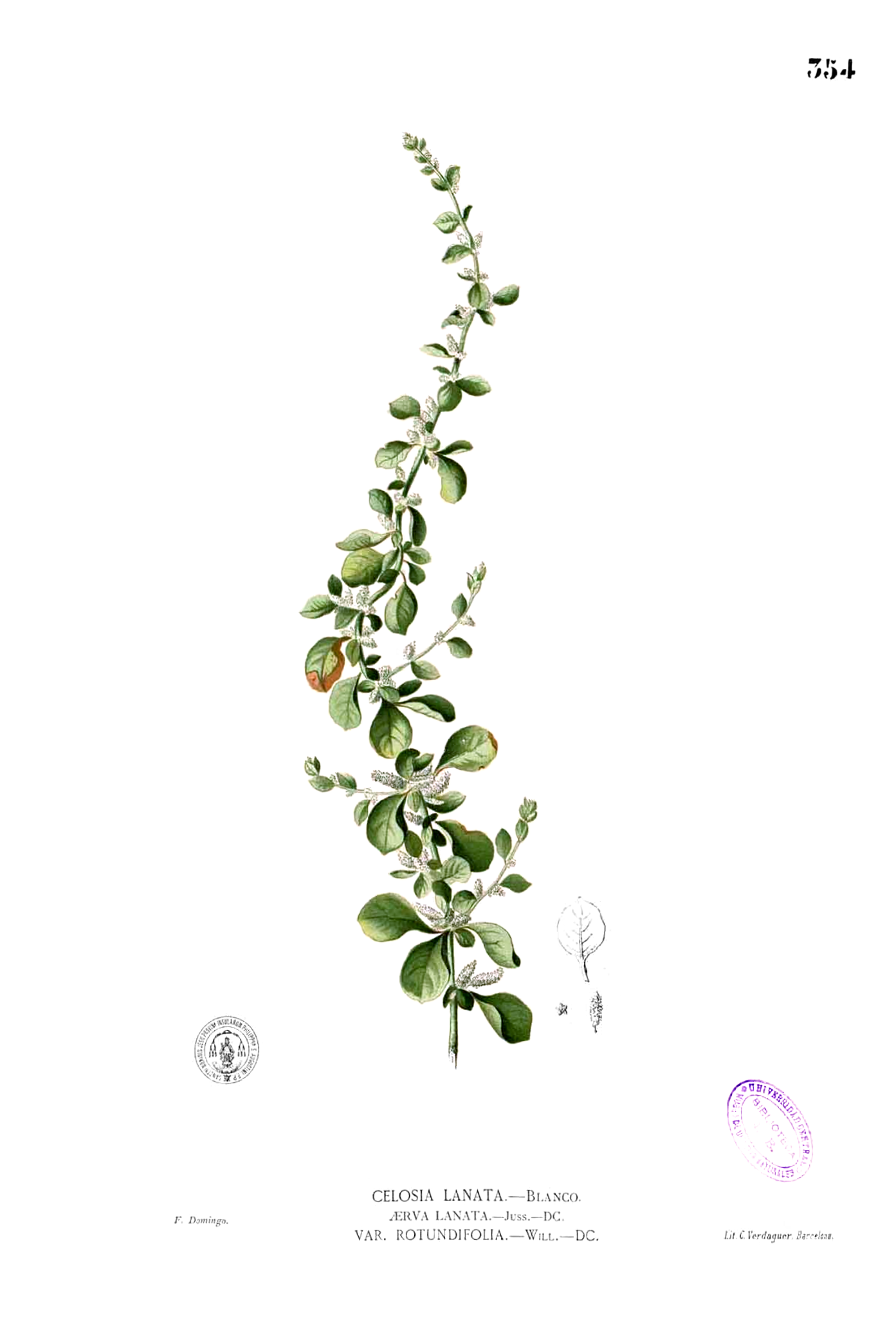 Plate from book